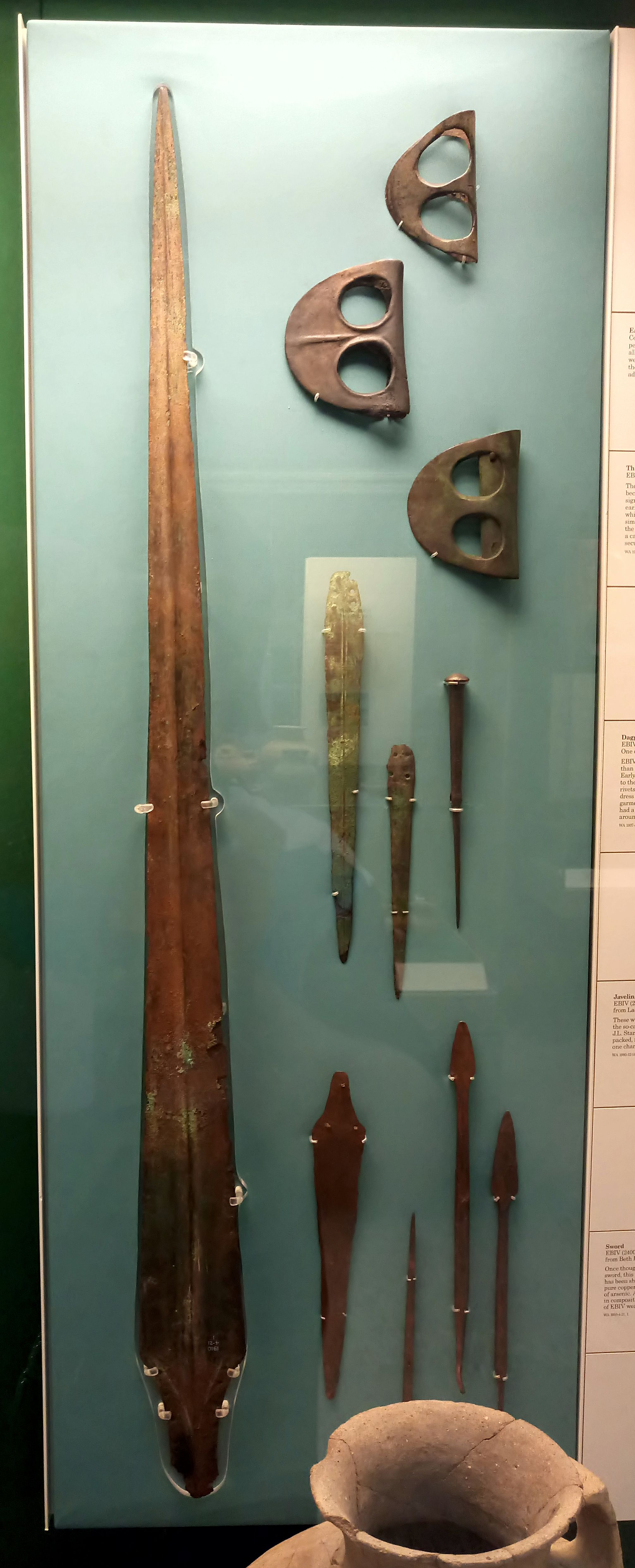 Copper sword from Beth Dagan, near Jaffa, 2400-2000 BC. Photographed in the British Museum.